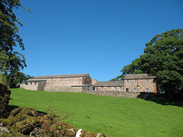 Modern remains of Hartley Castle